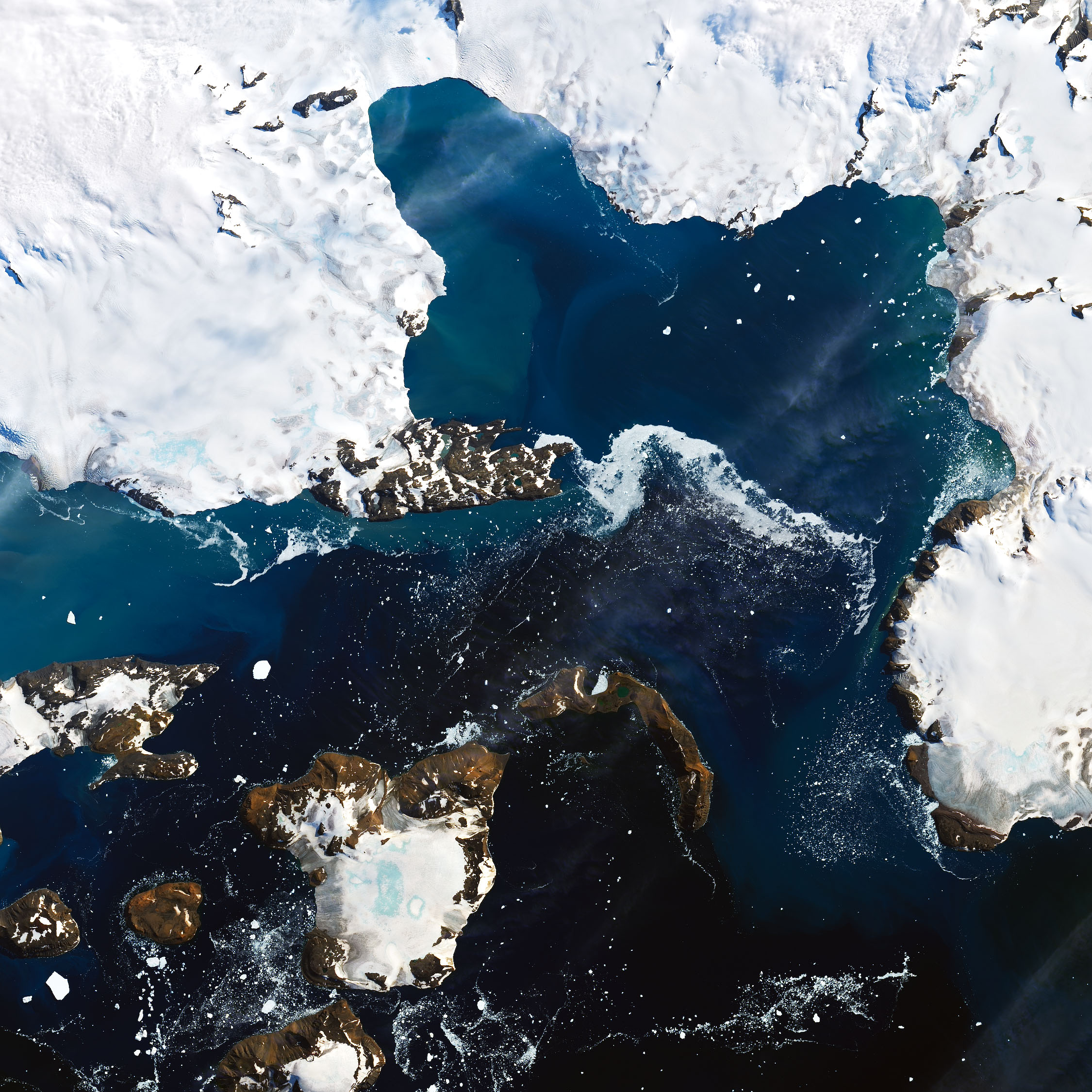 On Feb. 6, 2020, weather stations recorded the hottest temperature on record for Antarctica. Thermometers at the Esperanza Base on the northern tip of the Antarctic Peninsula reached 18.3°C (64.9°F) — around the same temperature as Los Angeles that day. The warm spell caused widespread melting on nearby glaciers. The warm temperatures arrived on Feb. 5 and continued until Feb. 13, 2020. The image above shows melting on the ice cap of Eagle Island and was acquired by the Operational Land Imager (OLI) on Landsat 8 on Feb. 13, 2020. Credit: NASA Earth Observatory images by Joshua Stevens, using Landsat data from the U.S. Geological Survey and GEOS-5 data from the Global Modeling and Assimilation Office at NASA’s Goddard Space Flight Center. Read more: NASA image use policy. NASA Goddard Space Flight Center enables NASA’s mission through four scientific endeavors: Earth Science, Heliophysics, Solar System Exploration, and Astrophysics. Goddard plays a leading role in NASA’s accomplishments by contributing compelling scientific knowledge to advance the Agency’s mission. Follow us on Twitter Like us on Facebook Find us on Instagram